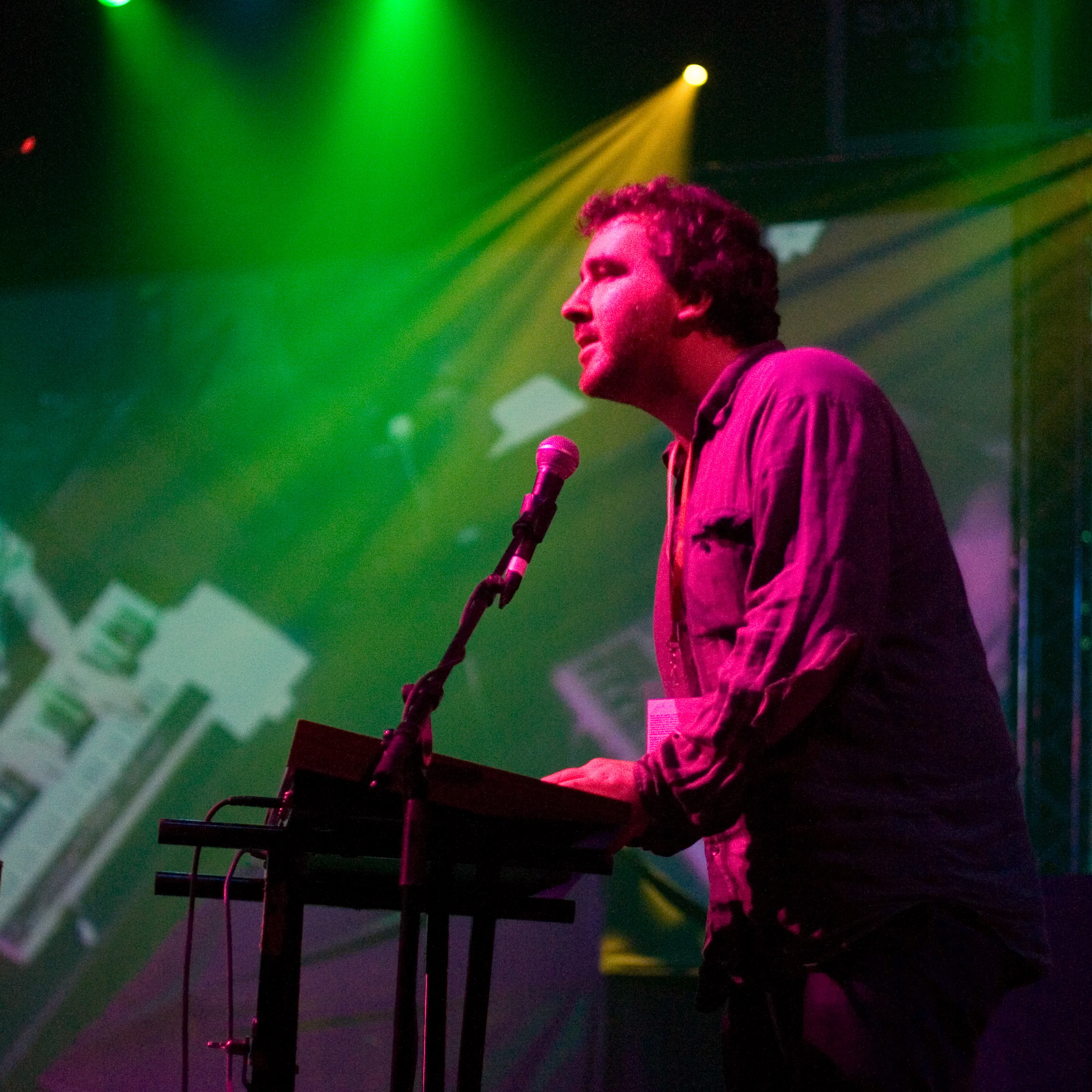 This image depicts Joe Goddard from electronic band, Hot Chip.